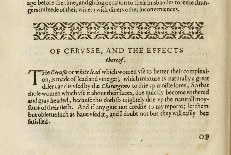 Giovanni Paolo Lomazzo about Venetian ceruse, from book A tracte containing the artes of curious paintinge, caruinge & buildinge, Oxford 1598, translated by Richard Haydock